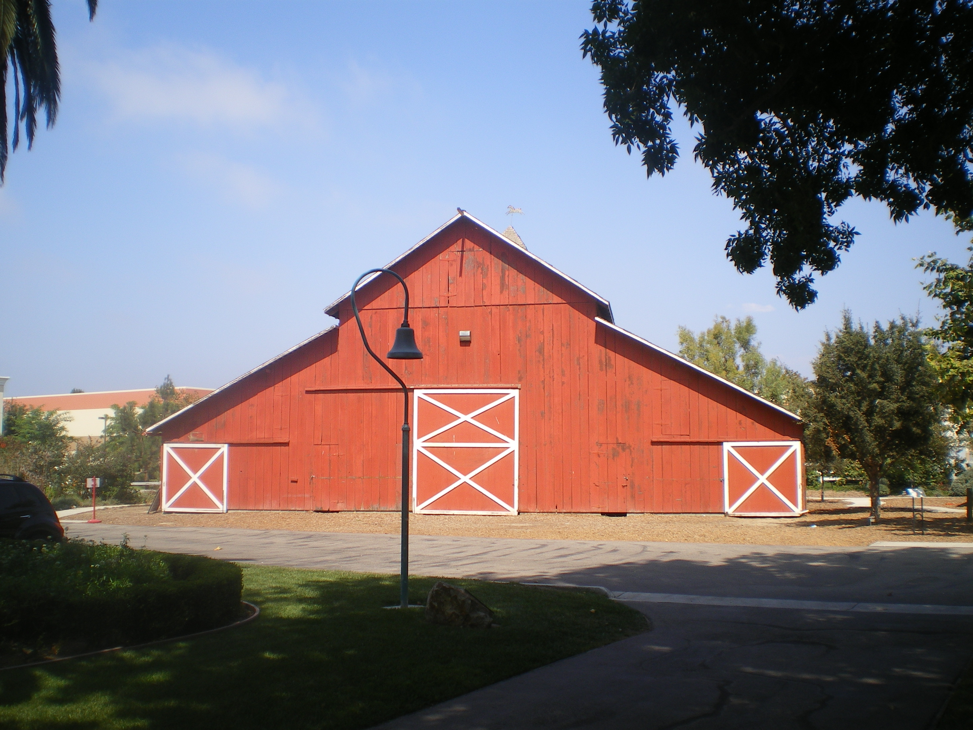 Camarillo Ranch House Barn, 201 Camarillo Ranch Rd., Camarillo, California